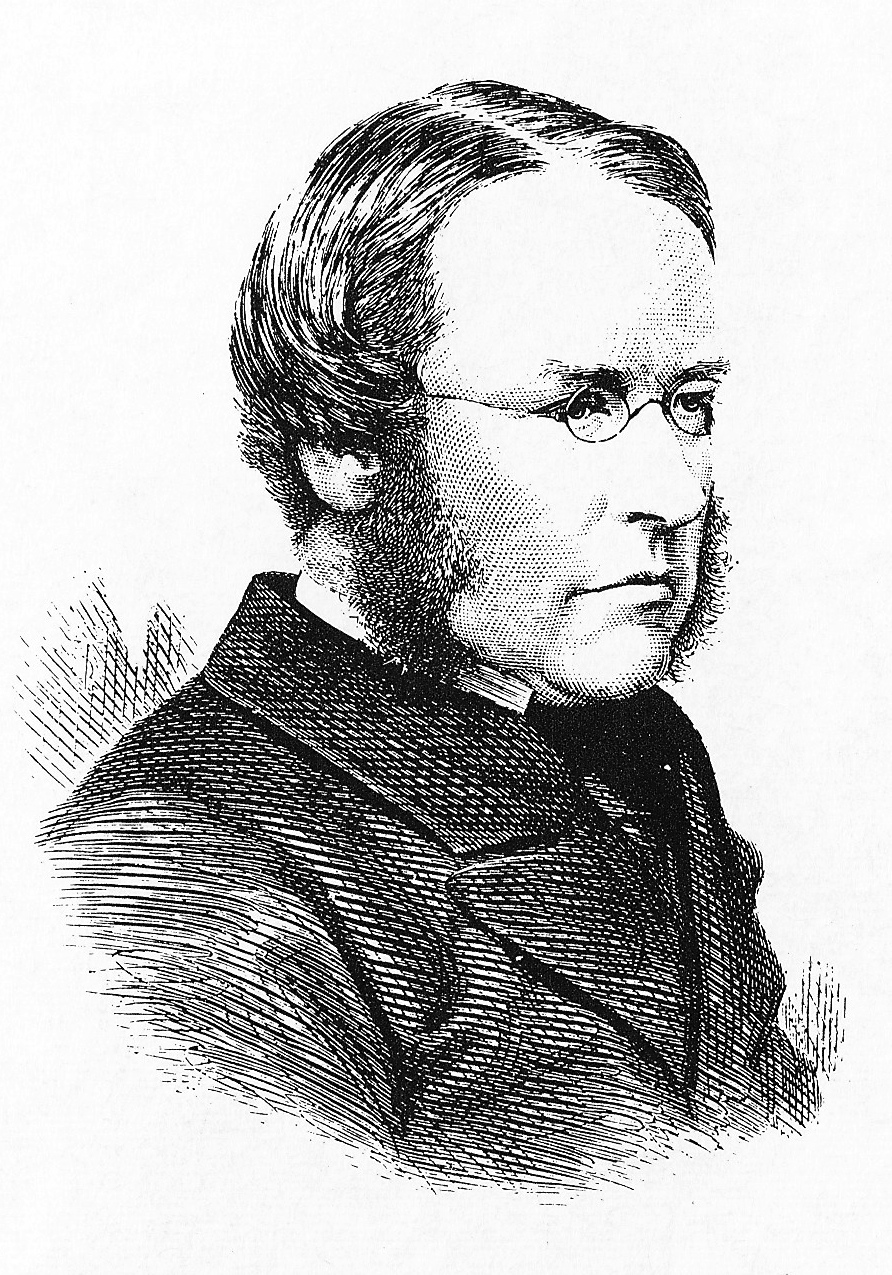 woodcut(?) of Lyon Playfair